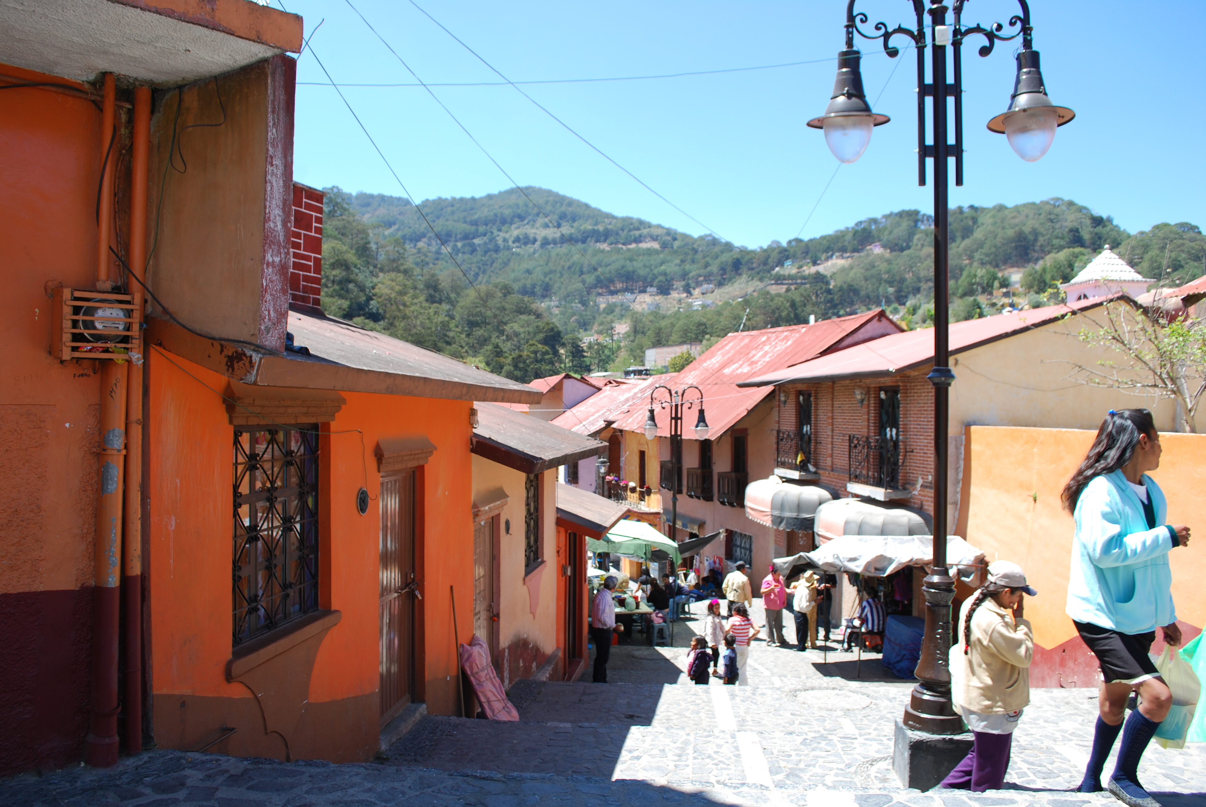 Street leading from the main plaza in Pinal de Amoles, Querétaro, Mexico